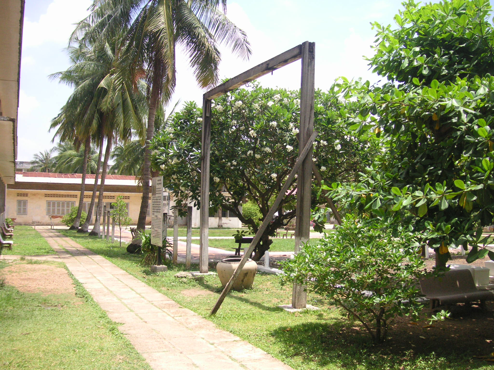 Gallow in the inner courtyard of the Tuol Sleng Museum in 2006.